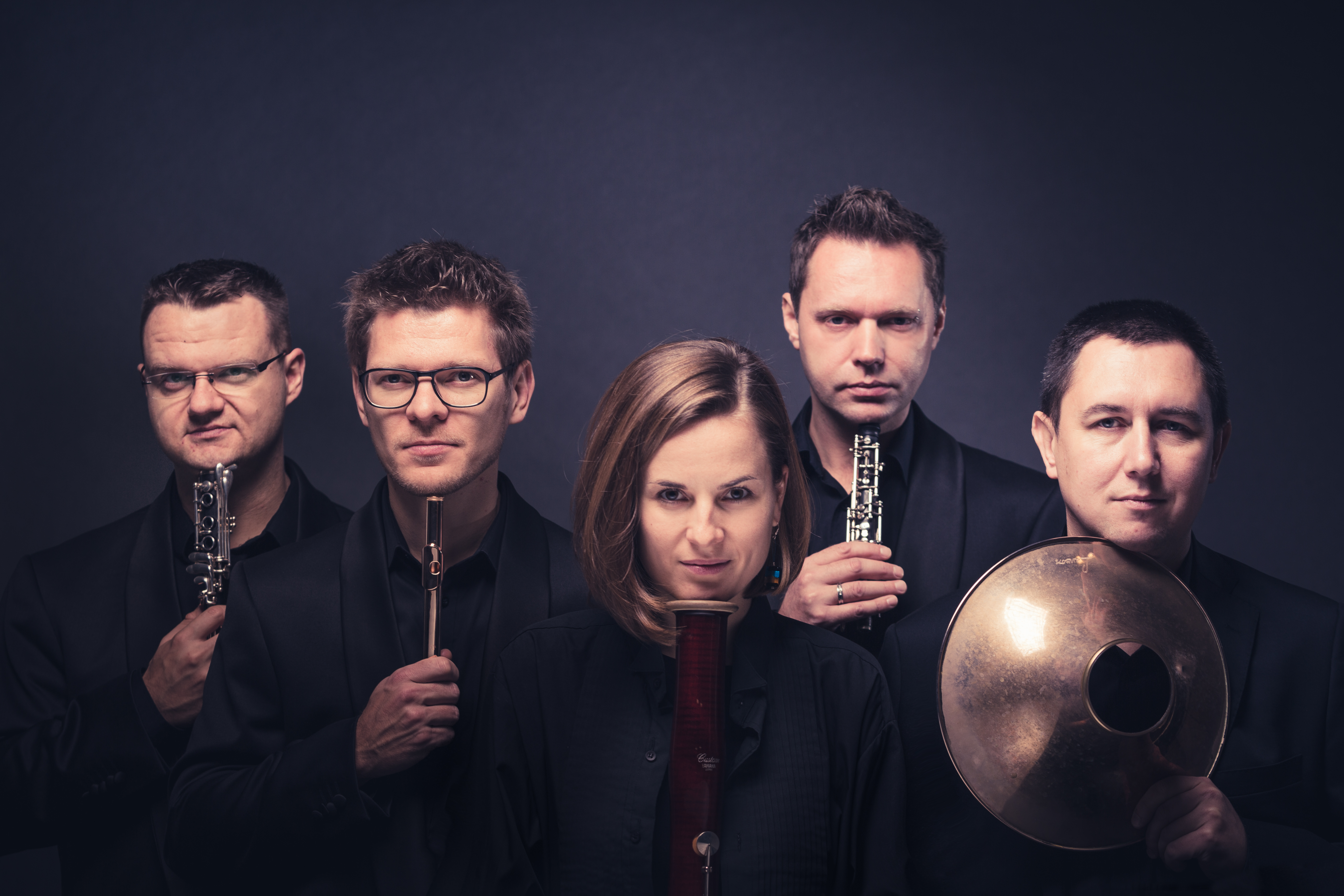 LutosAir Quintet, members 2013-2016. From left: Maciej Dobosz, Jan Krzeszowiec, Alicja Kieruzalska, Wojciech Merena, Mateusz Feliński. photo by Łukasz Rajchert, National Forum of Music in Wrocław